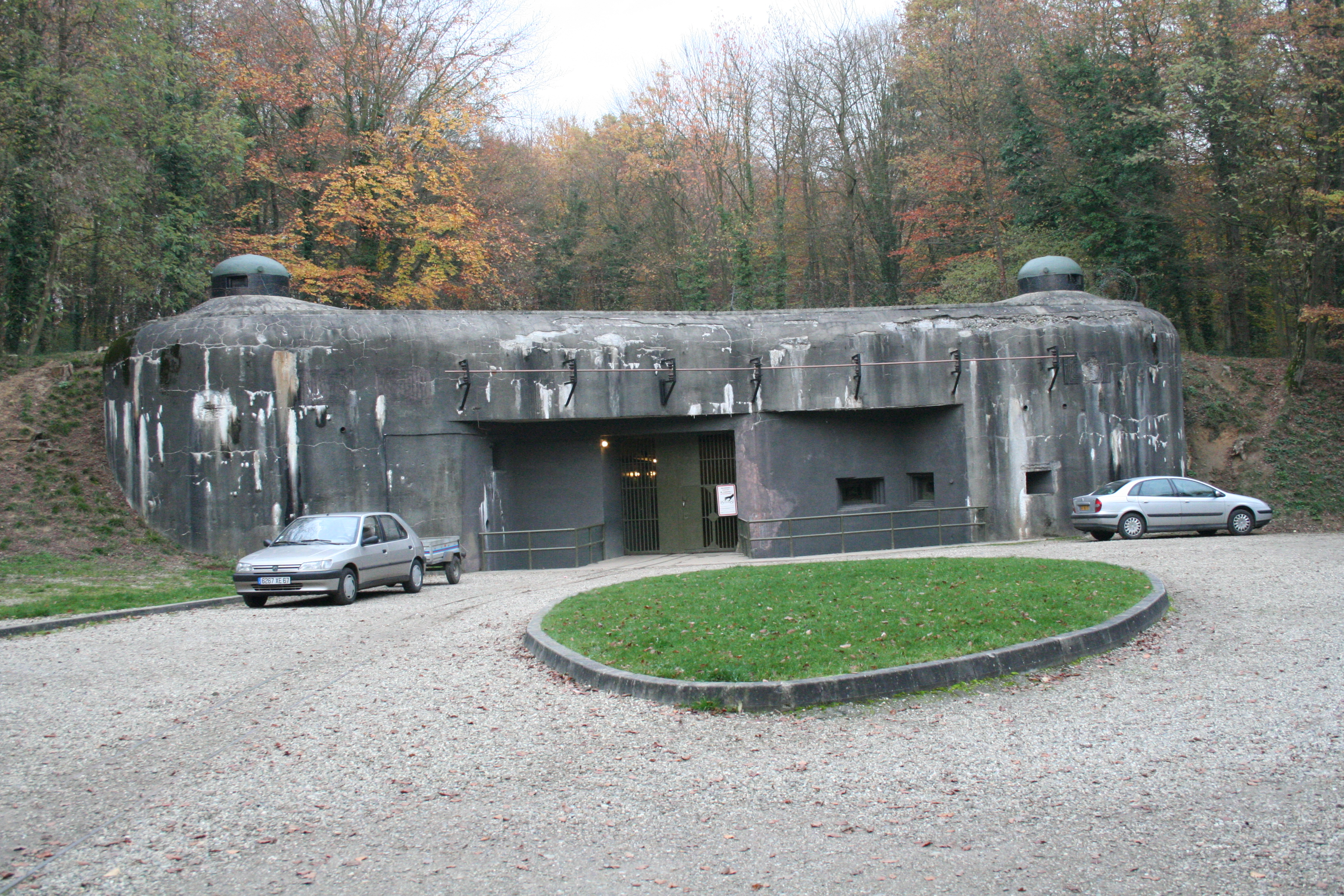 Utility entrance to Ouvrage de Schoenenburg bunker, Ligne Maginot, Alsace, France.